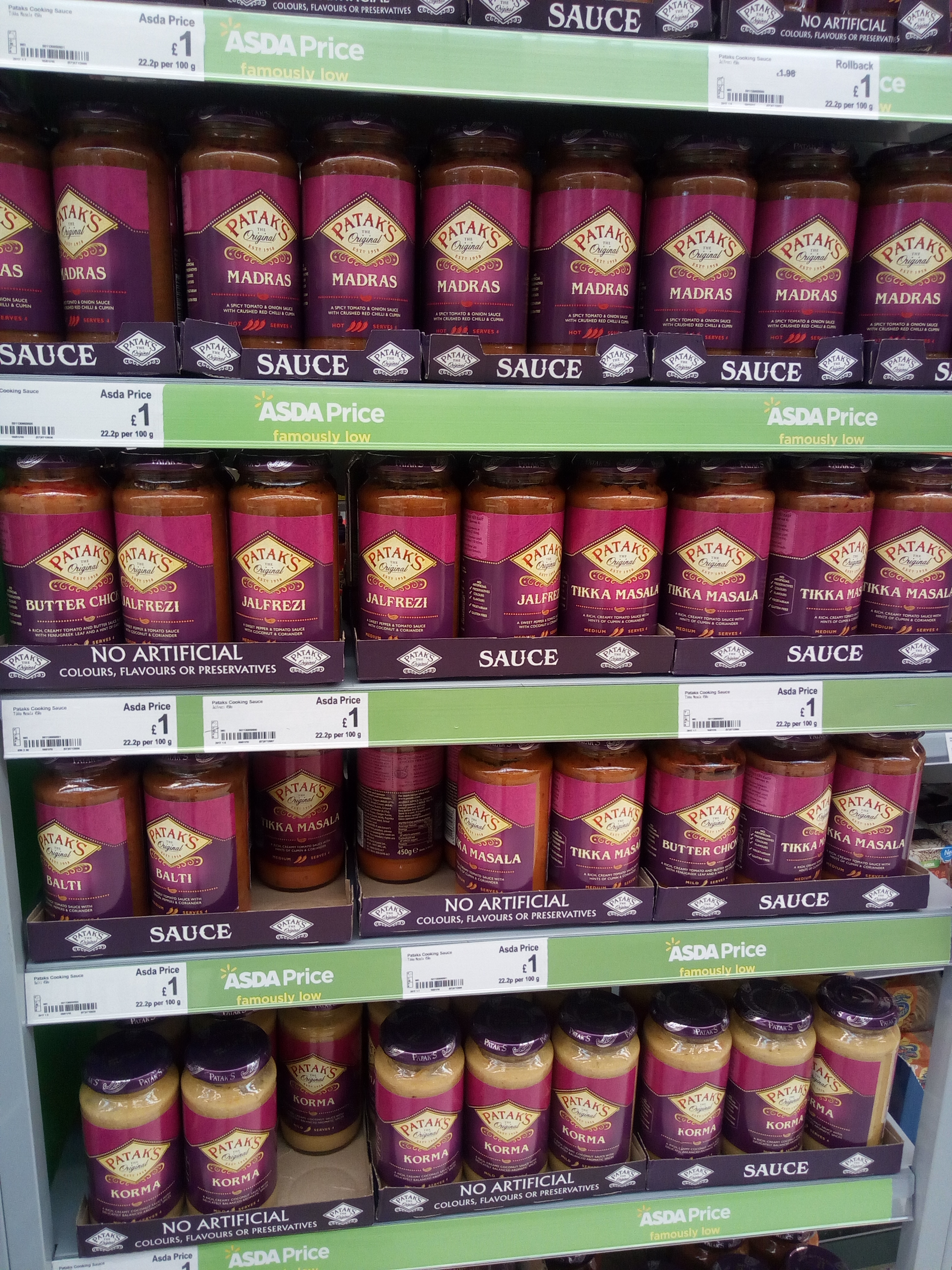 Patak's curry sauces for sale in Asda